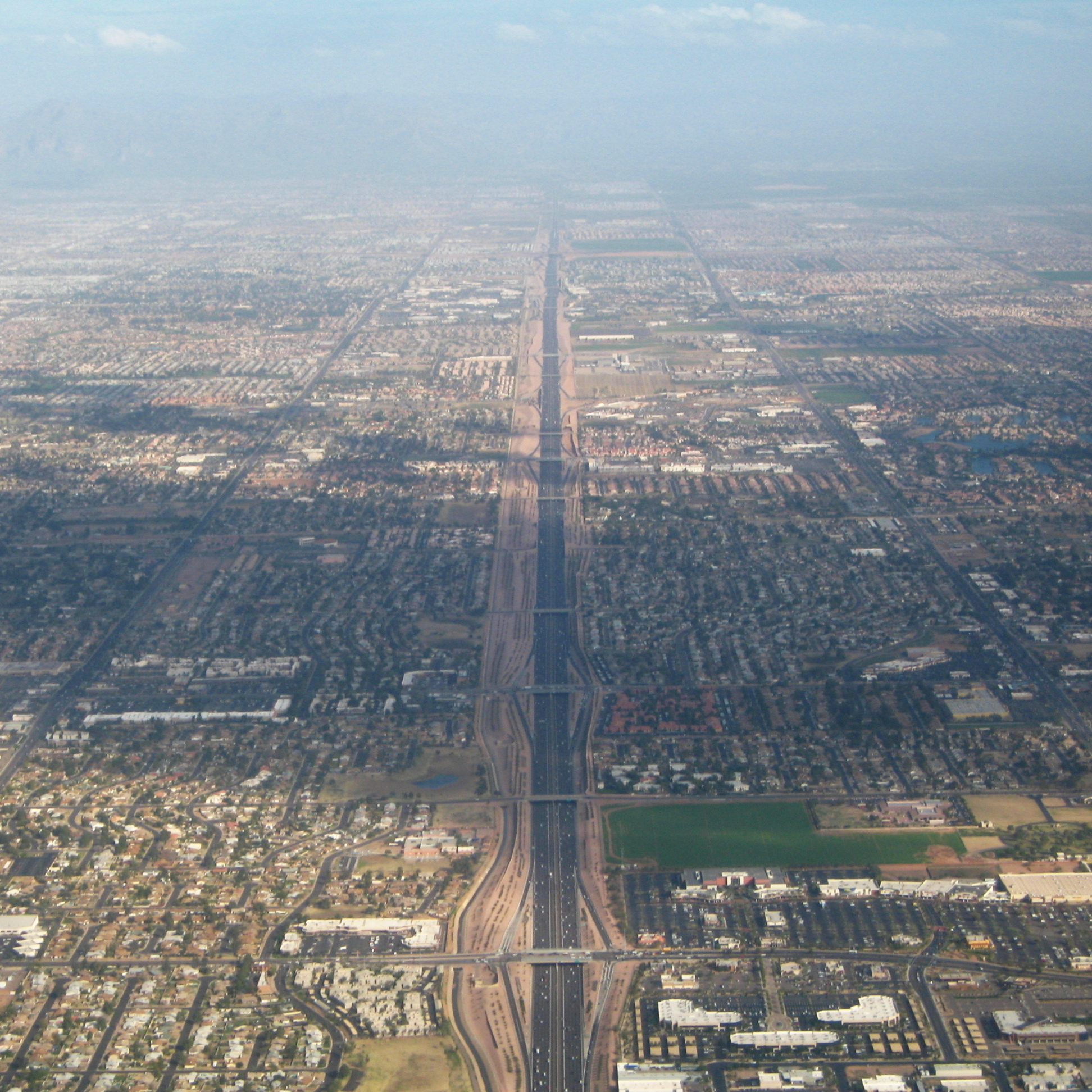 View east along Route 60, Mesa, Arizona. Visible junctions and overpasses from the bottom are: South Stapley Drive, South Harris St, South Gilbert Rd, South 24th St, South Lindsay Rd, South 32nd St, etc...